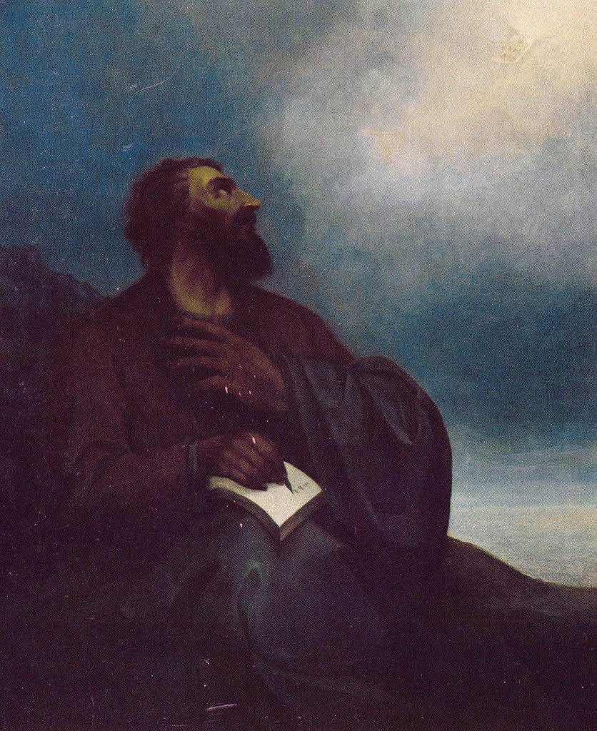 A painting of Mesrop Mashtots, the inventor of the Armenian alphabet by Stepanos Nersisian (1815-84) in the pontifical residence at the Etchmiadzin Cathedral complex